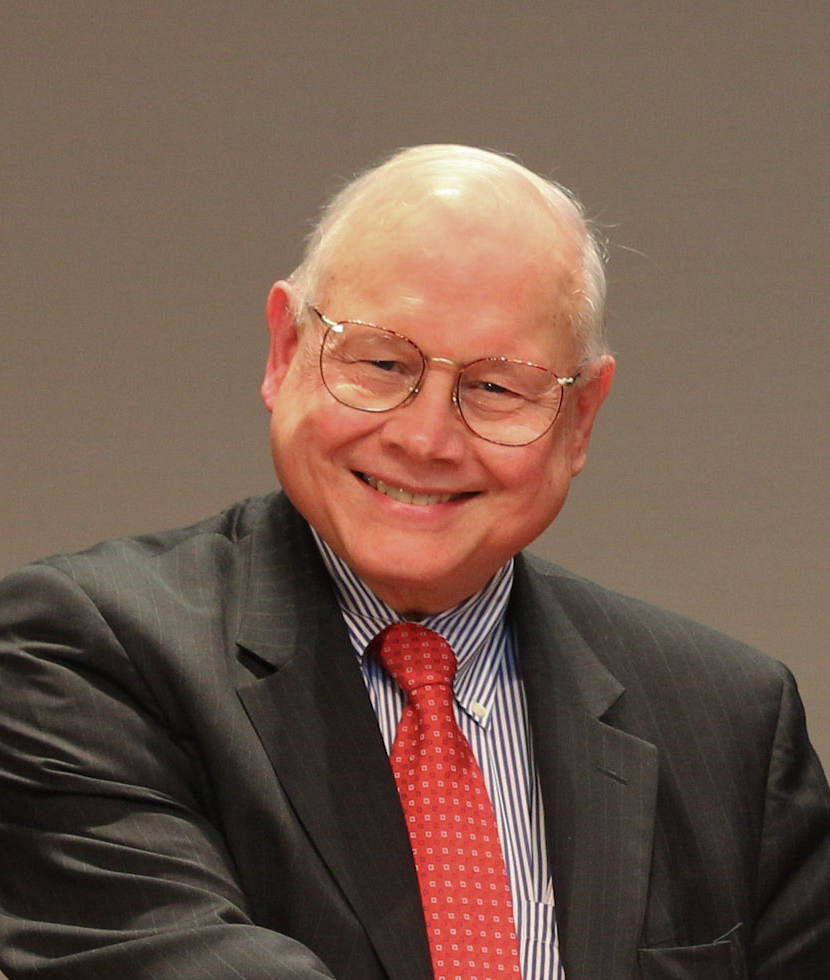 Photograph of John Templeton, Jr., Taken at the 2012 Science and Secularization Symposium, October 17, 2012, Chemical Heritage Foundation, Philadelphia, PA, USA.